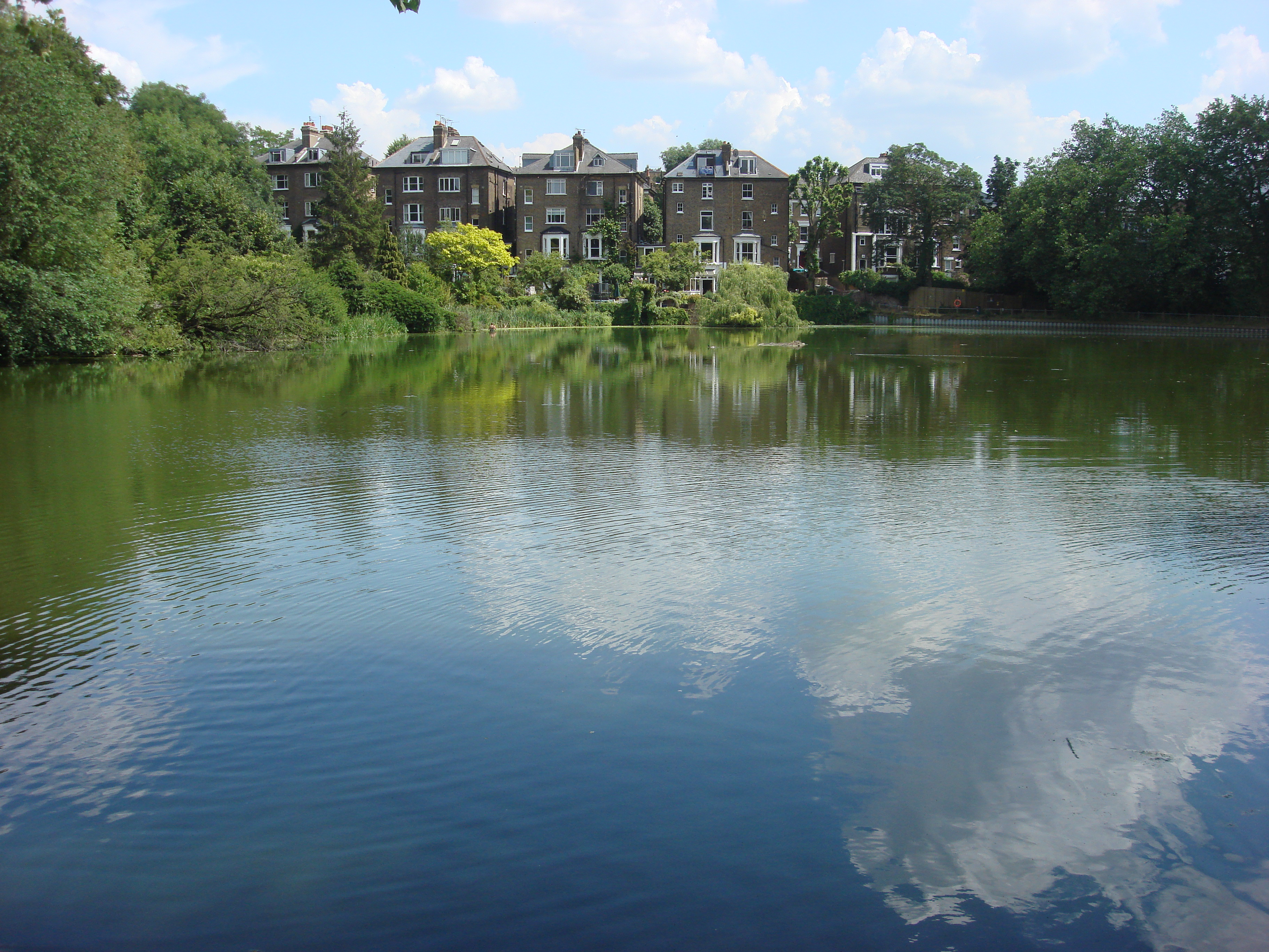 Hampstead